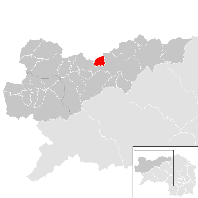 District Leoben